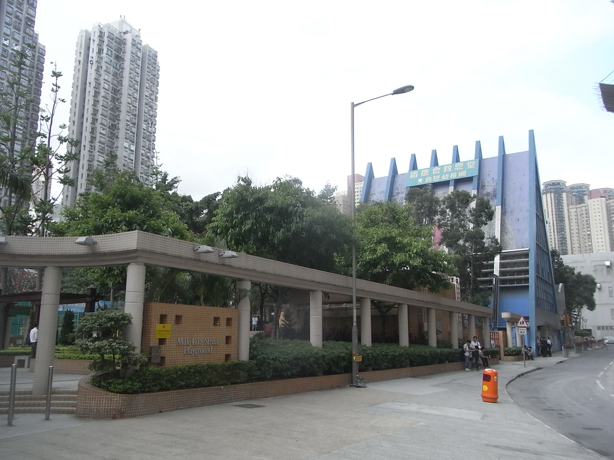 黃大仙睦鄰街